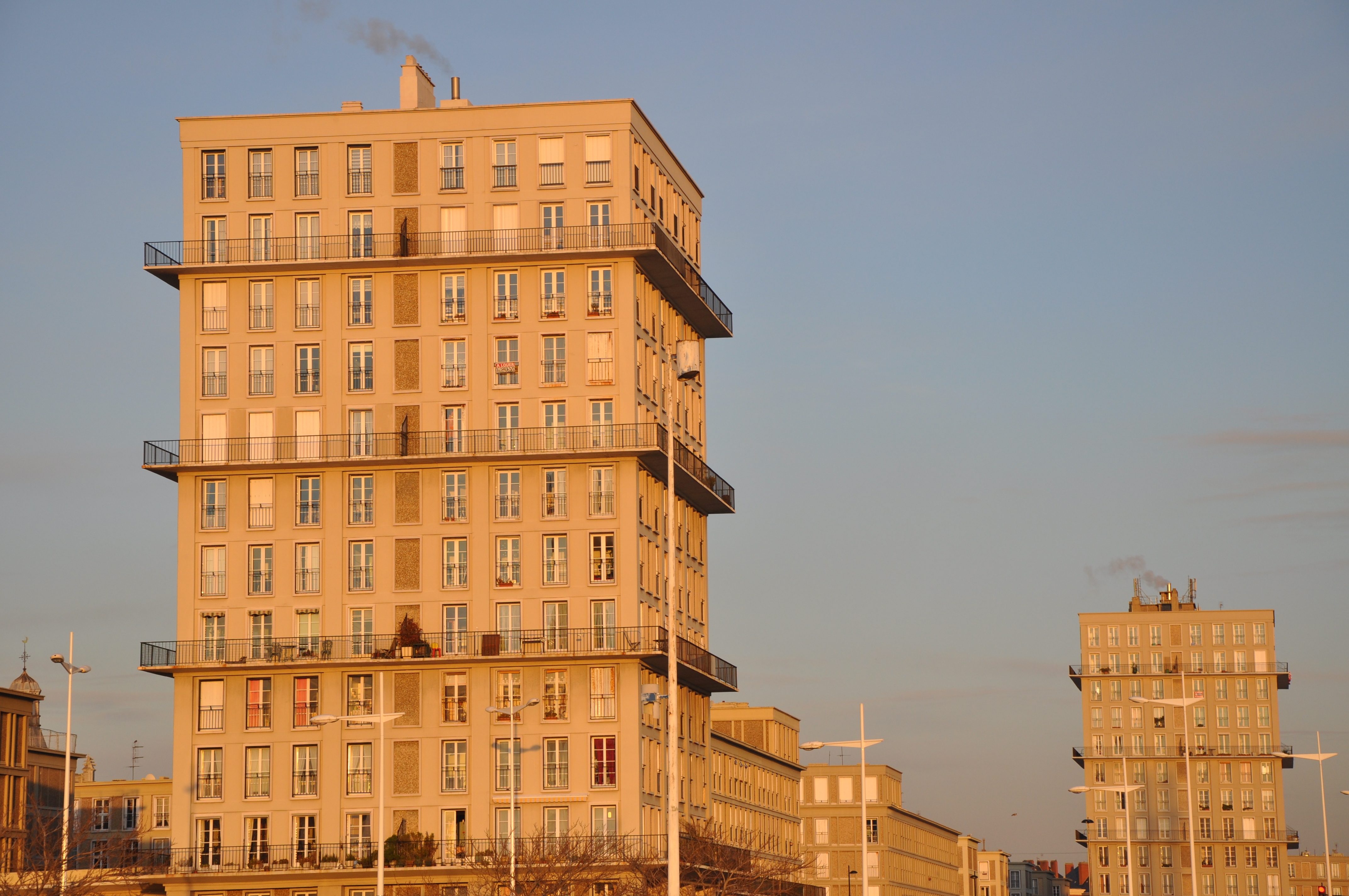 Le Havre (France): two towers, with light of sunrise